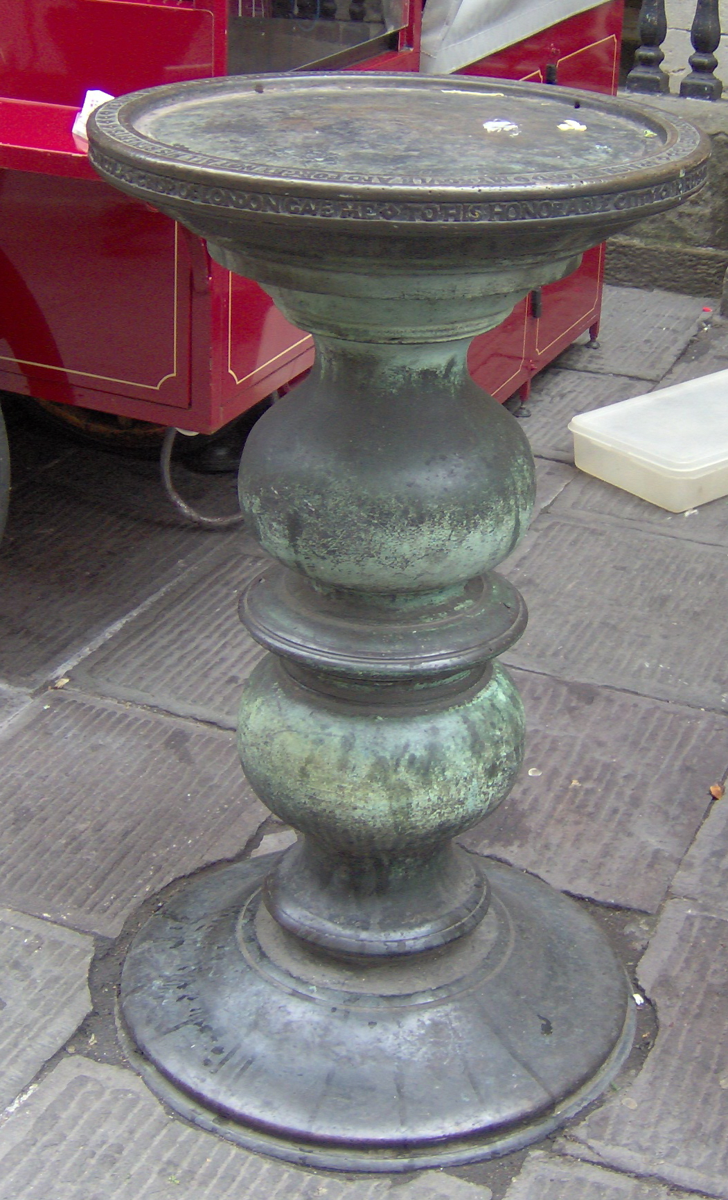 Brass table called a "nail", outside The Exchange, Bristol. Taken by Rod Ward August 2006